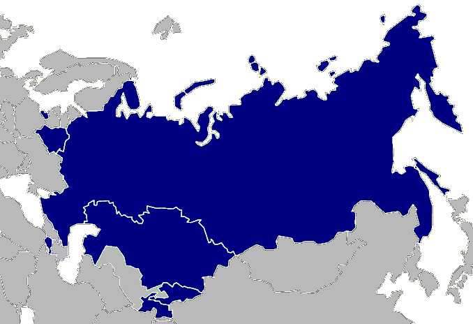 Map of Collective Security Treaty Organization.